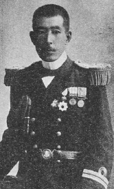 Hiroaki Tamura is an Imperial Japanese Navy Rear Admiral. He graduated from Uneted Naval Academy.